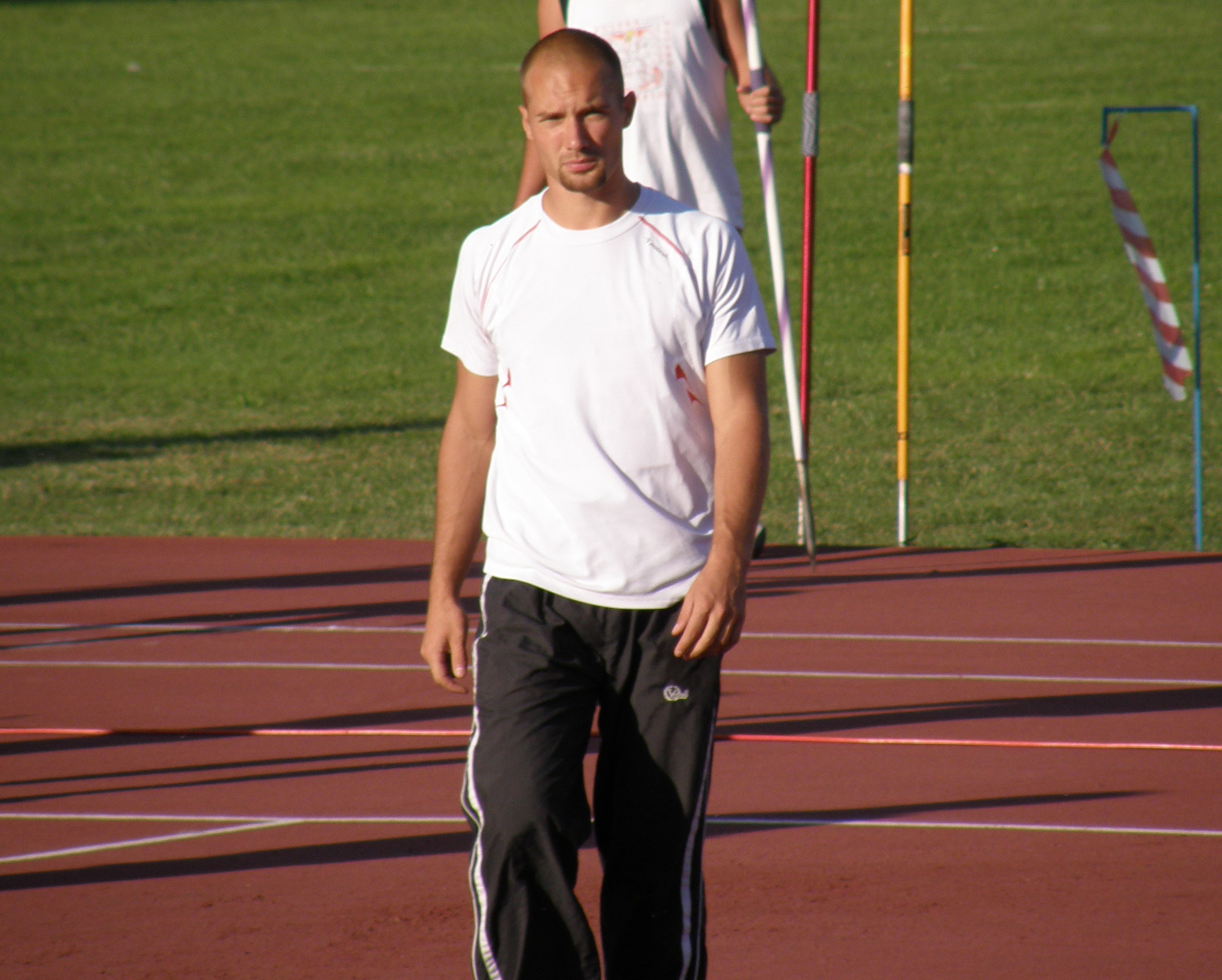 Łukasz Grzeszczuk - 2010 Polish Championships in Athletics (Bielsko-Biała)